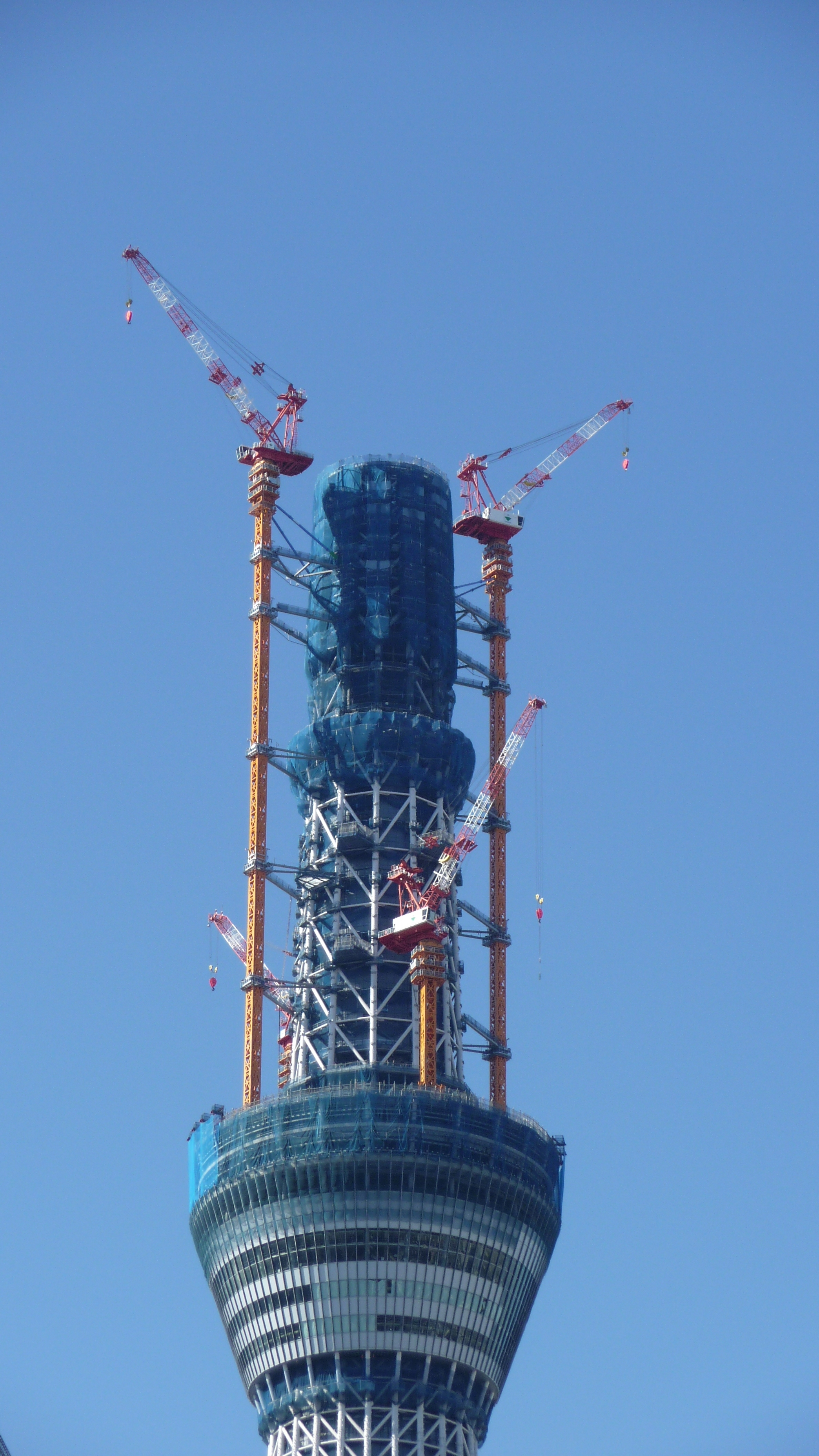 Four self-erecting tower crane mounted on the roof of 1st observatory (height 375 m) of Tokyo Sky Tree (as of tower height 497 m) . Photo taken on 3 November 2010. External site of Crane detail in Japanese; Jib Climbing Crane - Model: JCC-V720AH (in Japanese) (Note that date in file naming, 20101027, is not meeting to updated version on 3 Nov. 2010.)